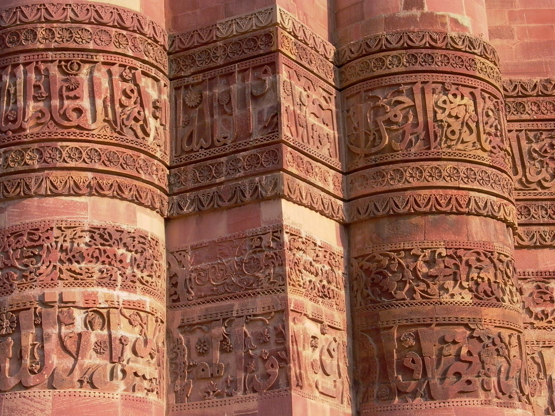 The Minaret at Qutb Minar in Delhi India. Arabic calligraphy.